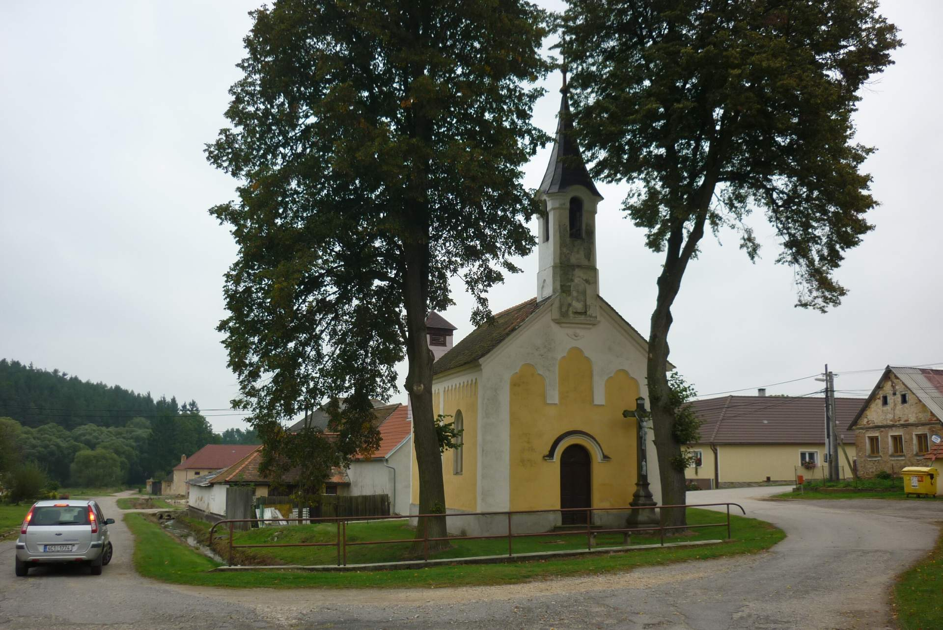 Náves s kapličkou ve Chvaletíně